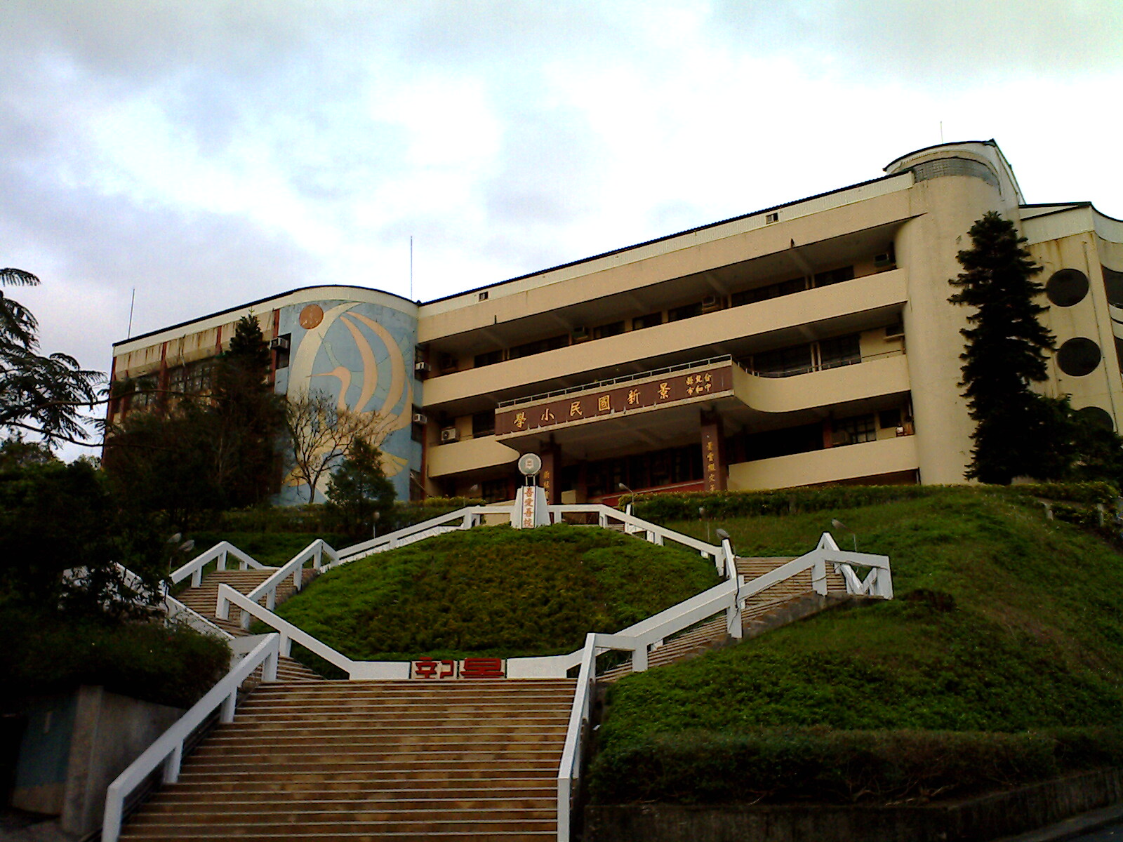 Jingxin Elementary School in Zhonghe, Taipei County, Taiwan